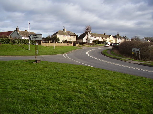 Houses on A6121 at Ryhall